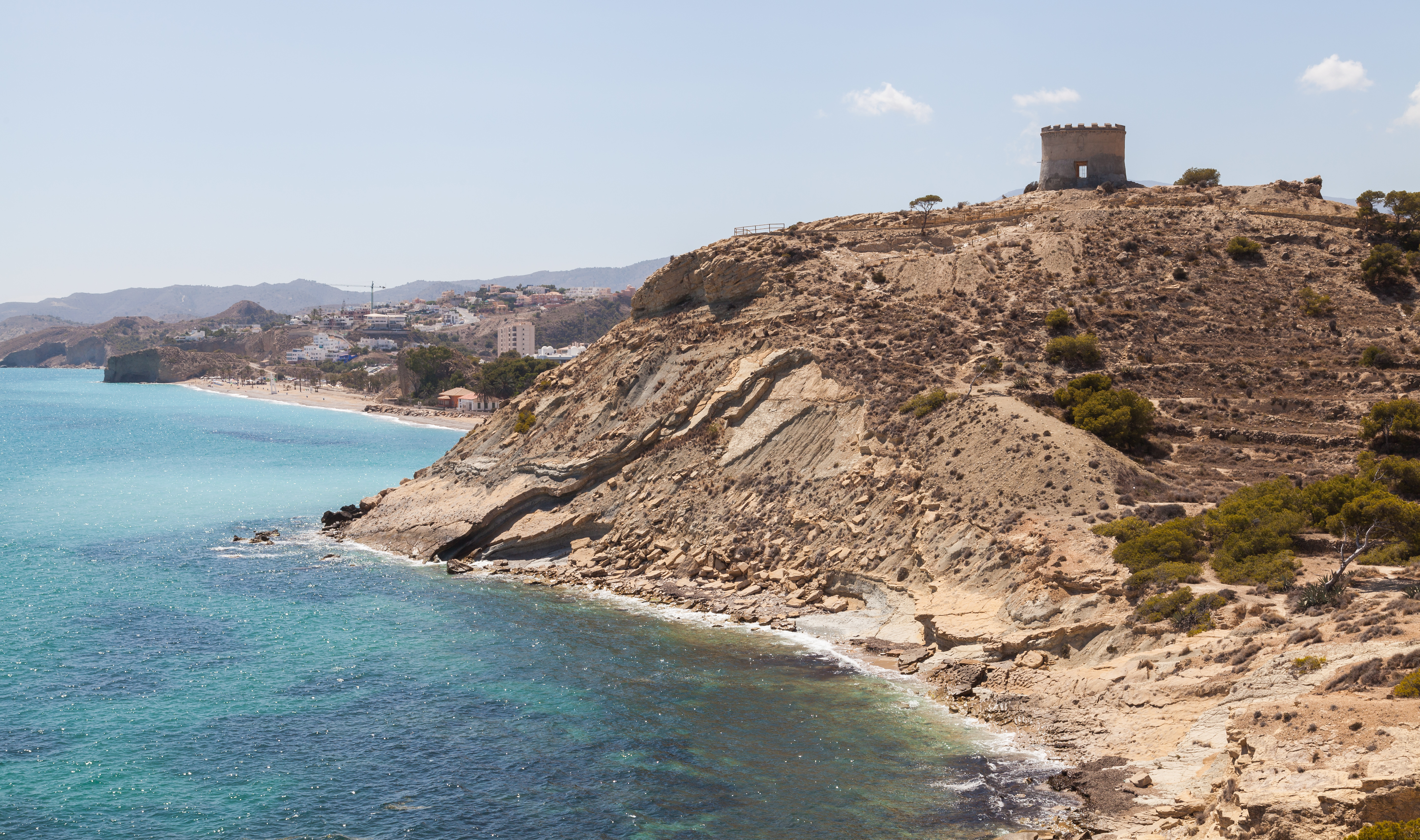 Malladeta Tower, Villajoyosa, Spain 31.139-040.